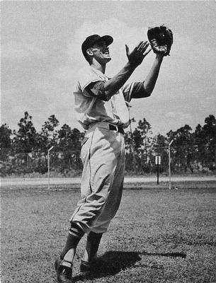 Professional baseball player Mike Shannon